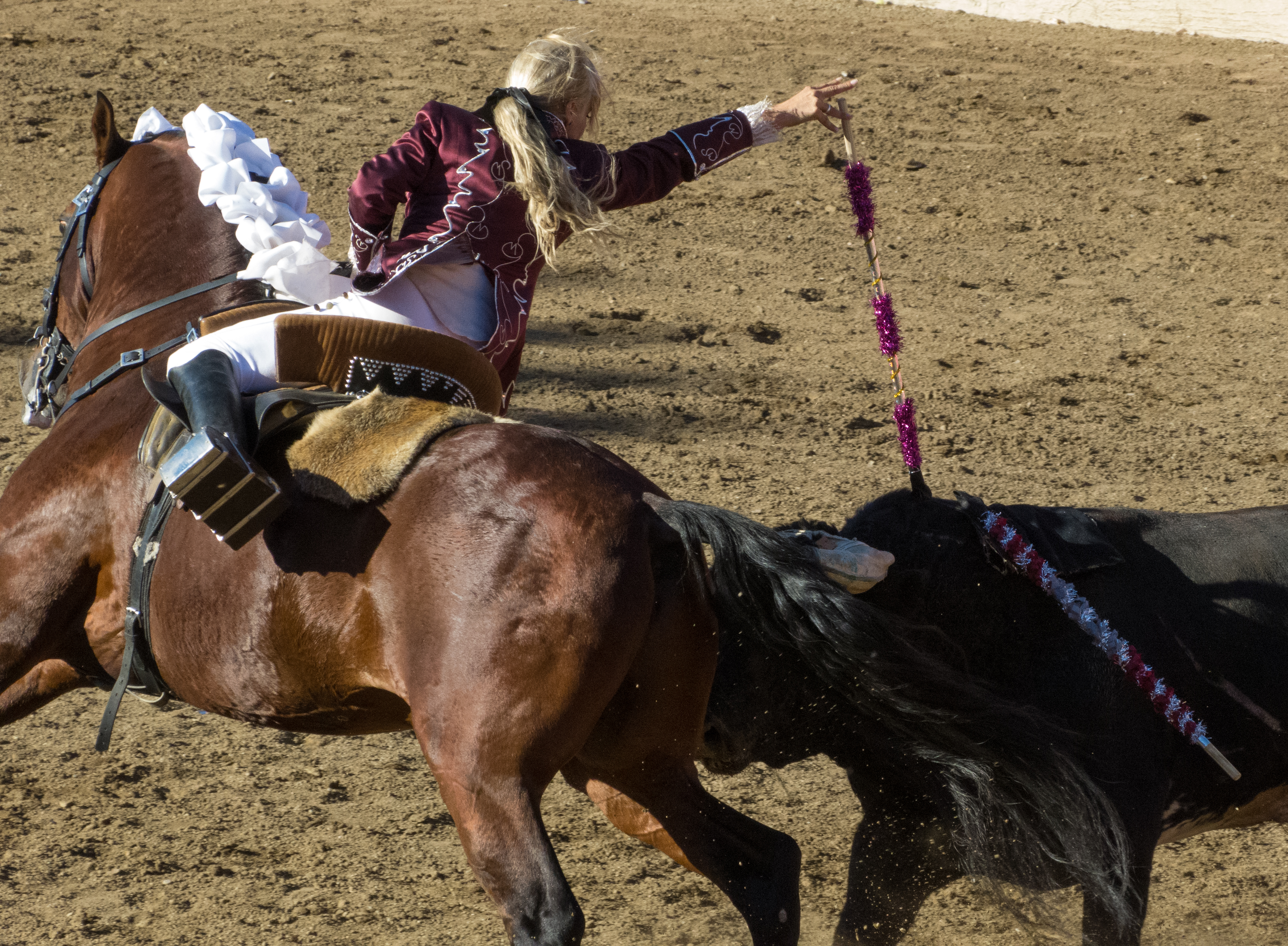 Portuguese-style bloodless bullfighting in Thornton, California, circa 2012. The bullfighter is affixing spears tipped with hook and loop fabric (such as Velcro) to a patch of matching fabric affixed to the bull's back.